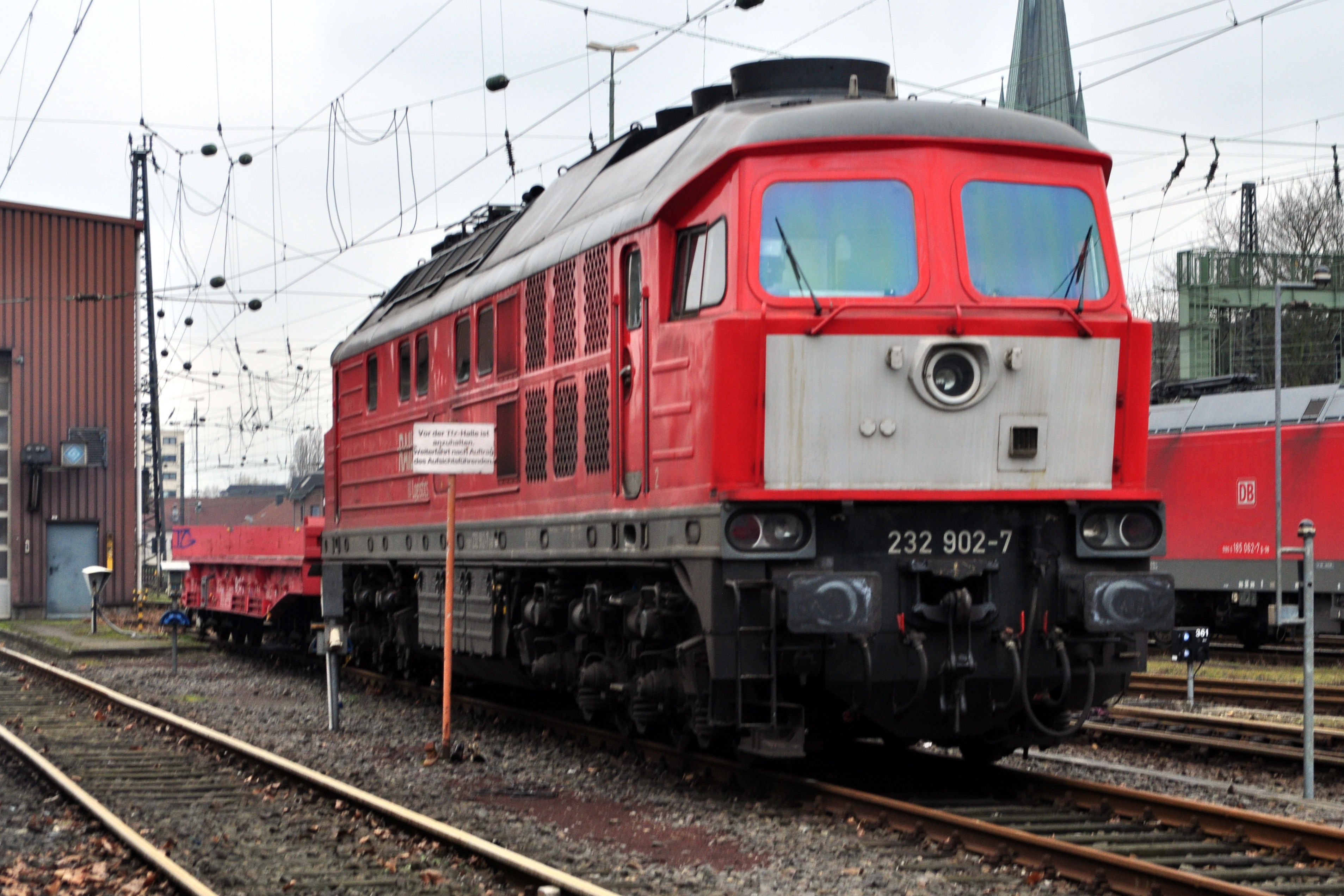 DB Schenker Rail 232 902-7 at Oberhausen-Osterfeld Süd